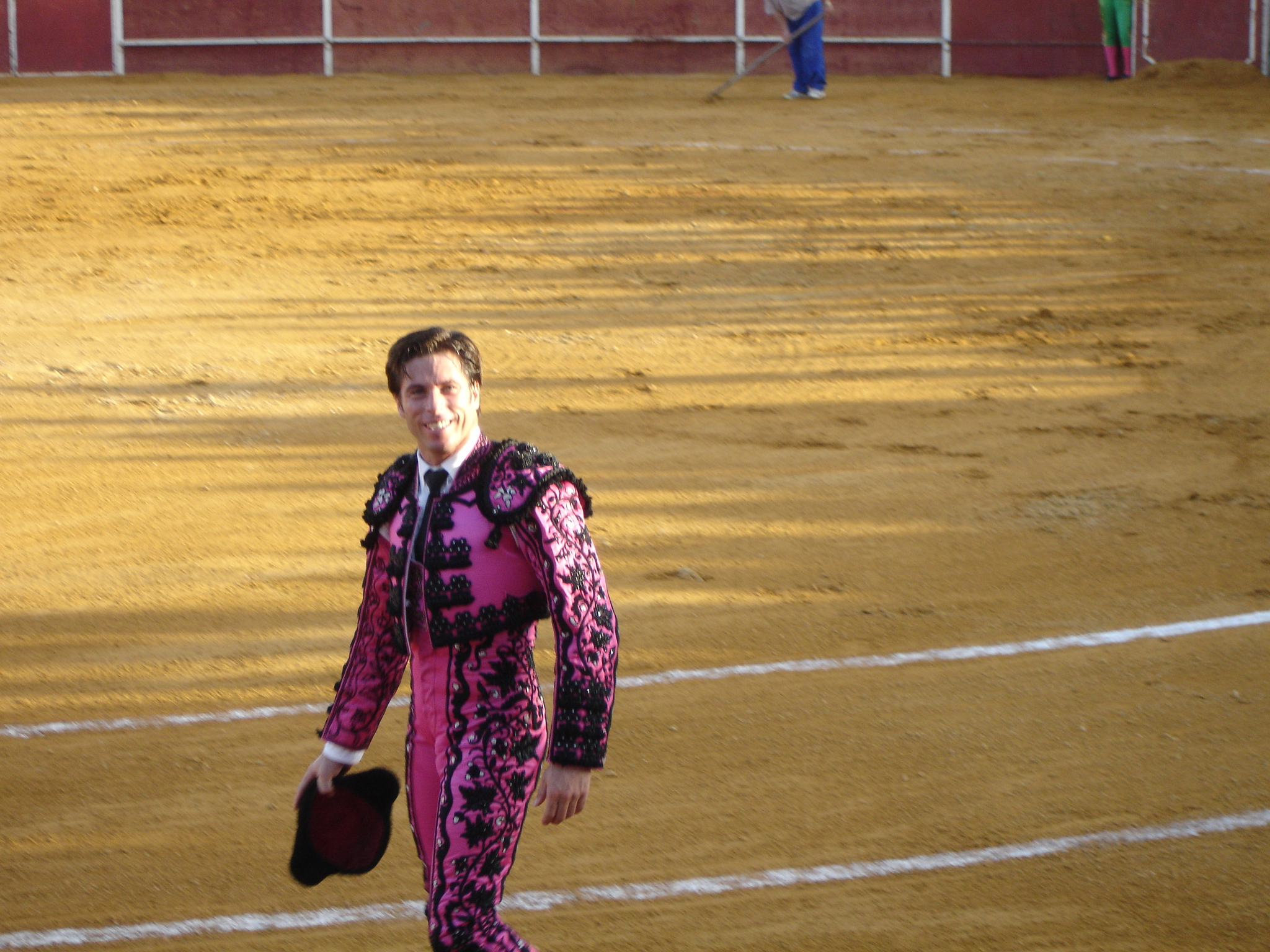 Canales Rivera, bullfighting during Feria at Arcos de la Frontera. Andalusia (Spain)